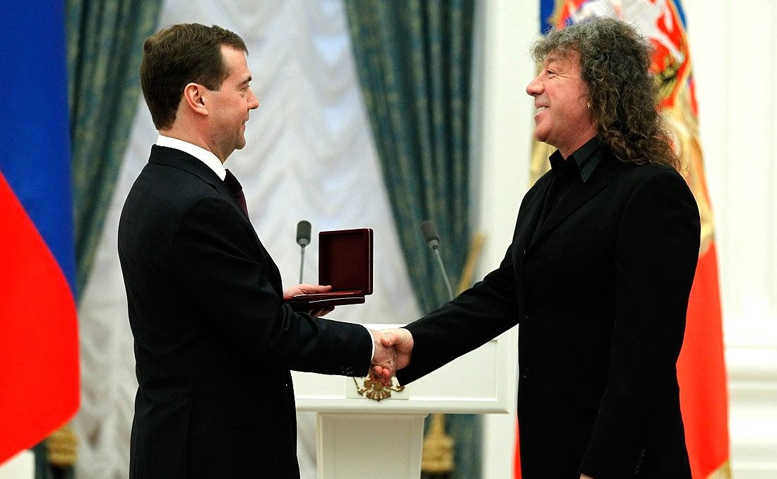 Dmitry Medvedev and Vladimir Borisovitsch Kuzmin — Russian Blues/Rock composer and performer.